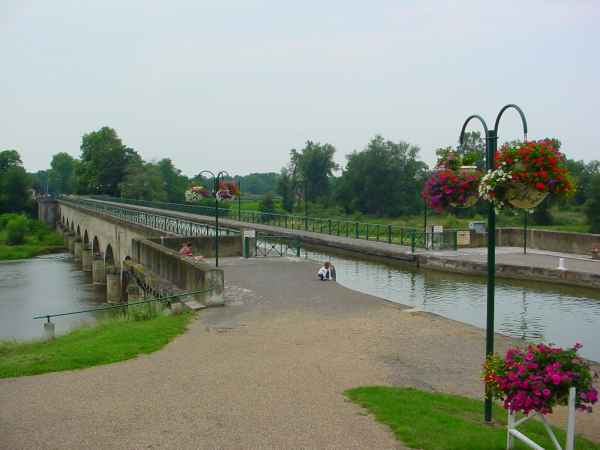 Canal aqueduct of Digoin (Canal latéral à la Loire crossing Loire river)